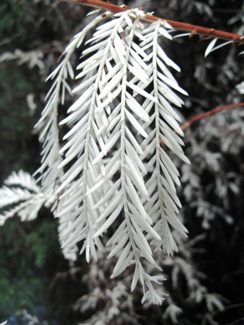 A branch from an 'albino' Sequoia sempervirens exhibiting lack of chlorophyll.